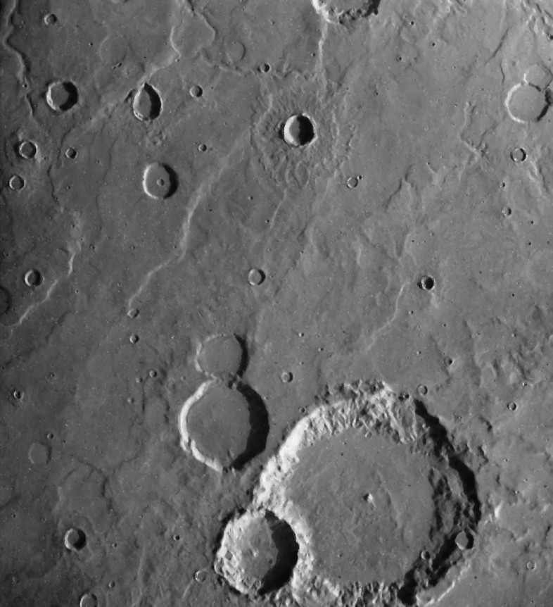 Hartwig crater (bottom) on Mars. The small crater right of center is Nybyen crater. Viking Orbiter 1 image from camera A (084A05). Clear filter was used for this image. Resolution is about 228 m/pixel. North is to upper right. Emission Angle: 7.4 Incidence Angle: 81.7 Latitude: -37.6 Longitude: 342.3 Phase Angle: 78.4